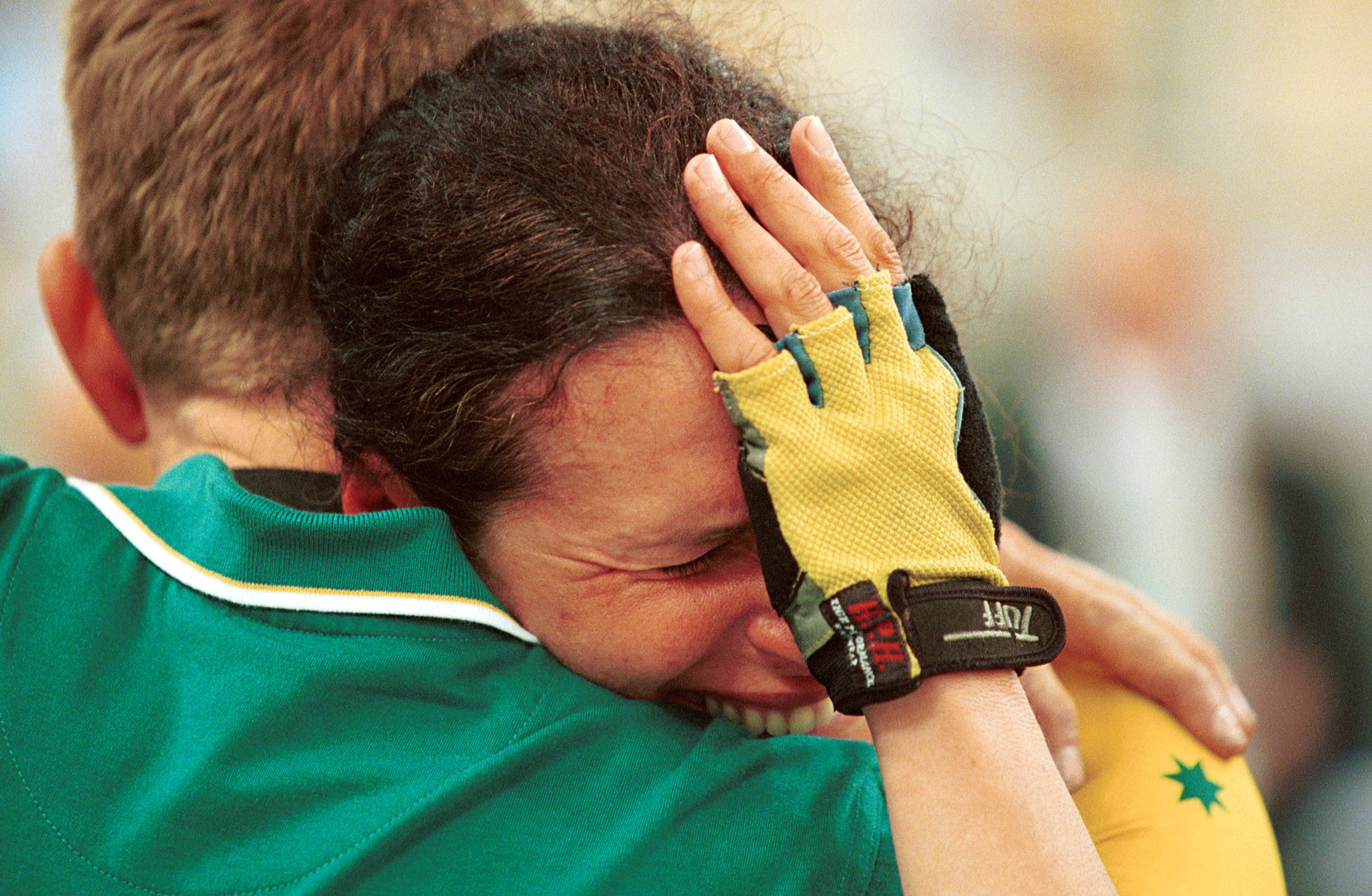 Australian track cyclist Lyn Lepore emotional during 2000 Sydney Paralympic Games race. She won silver with Lynette Nixon in the Women's tandem 1km time trial.